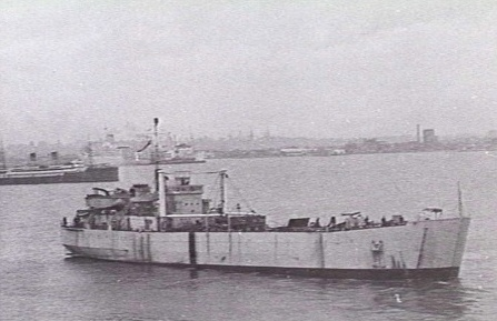 Australian War Memorial image 300940. The Australian Navy landing ship tank HMAS Labuan departing Williamstown, Victoria for Macquarie Island